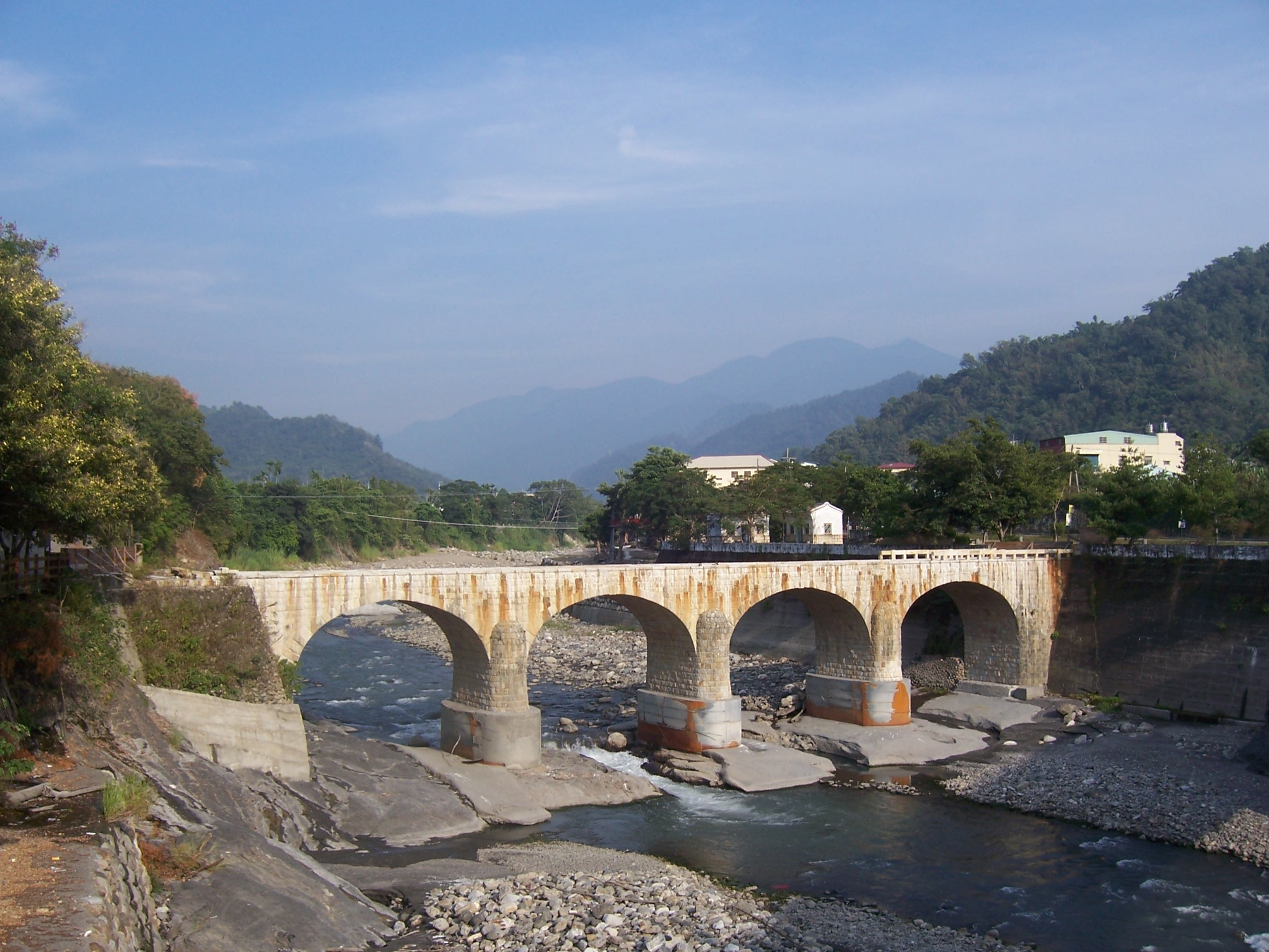 Old Beigang River Bridge（a.k.a. Glutinous Rice Bridge）over the Beigang River,located at Gouxing Township, Nantou County, Taiwan.The bridge deck of was damaged by the 2004 floods as of July 2nd 2004.The present bridge was built in 2006.